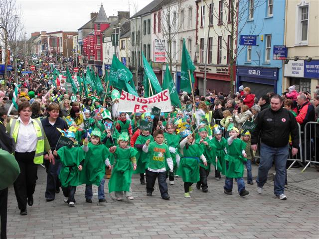 St Patrick's Day, Omagh 2010 (19) St Joseph's Primary School from Drumquin is taking part